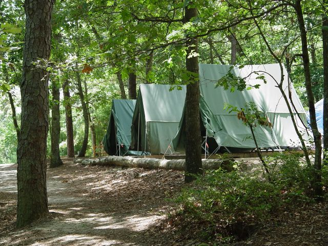 Tents at Joseph A Citta Scout Reservation